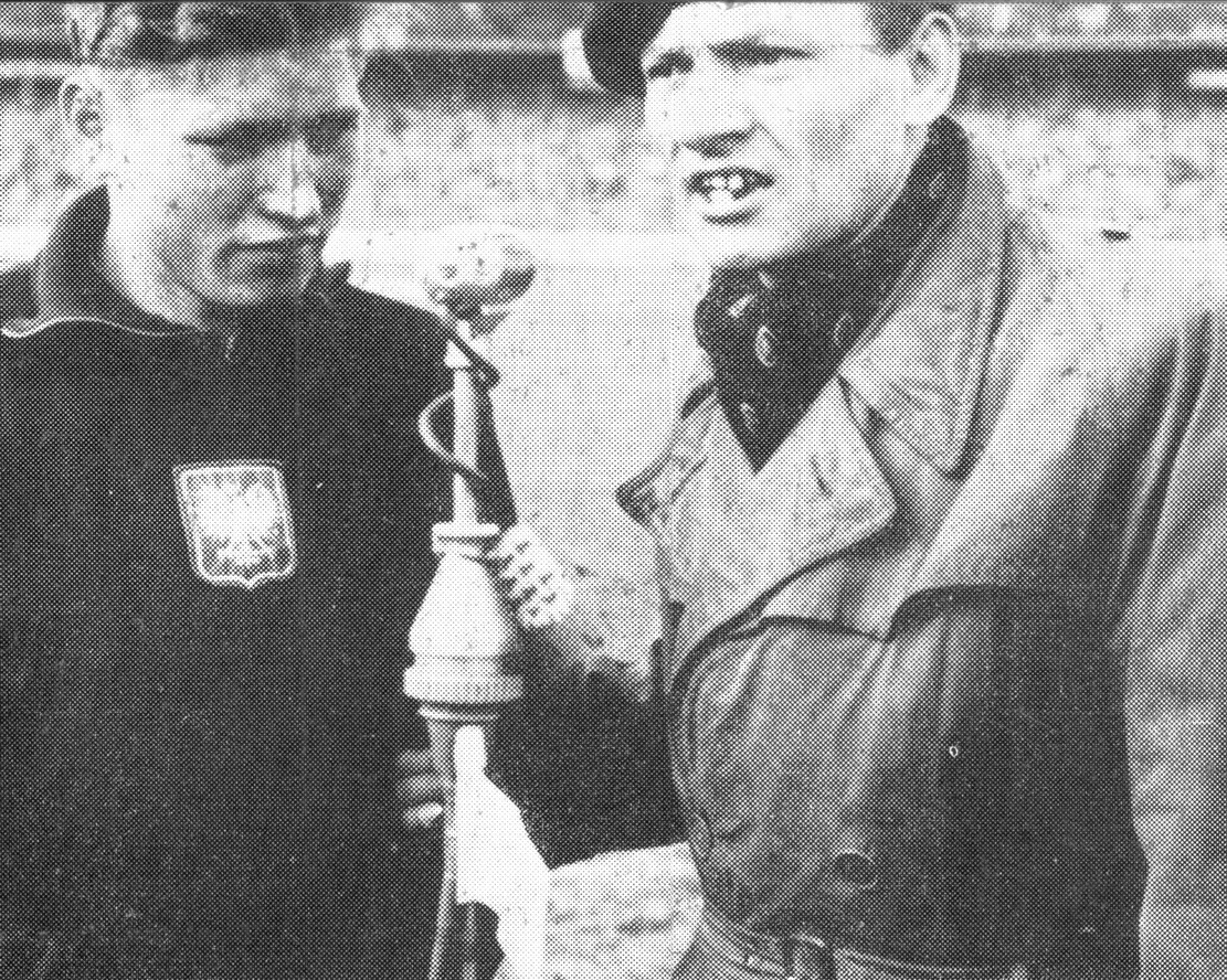 Witold Dobrowolski, a Polish radio sports journalist and announcer